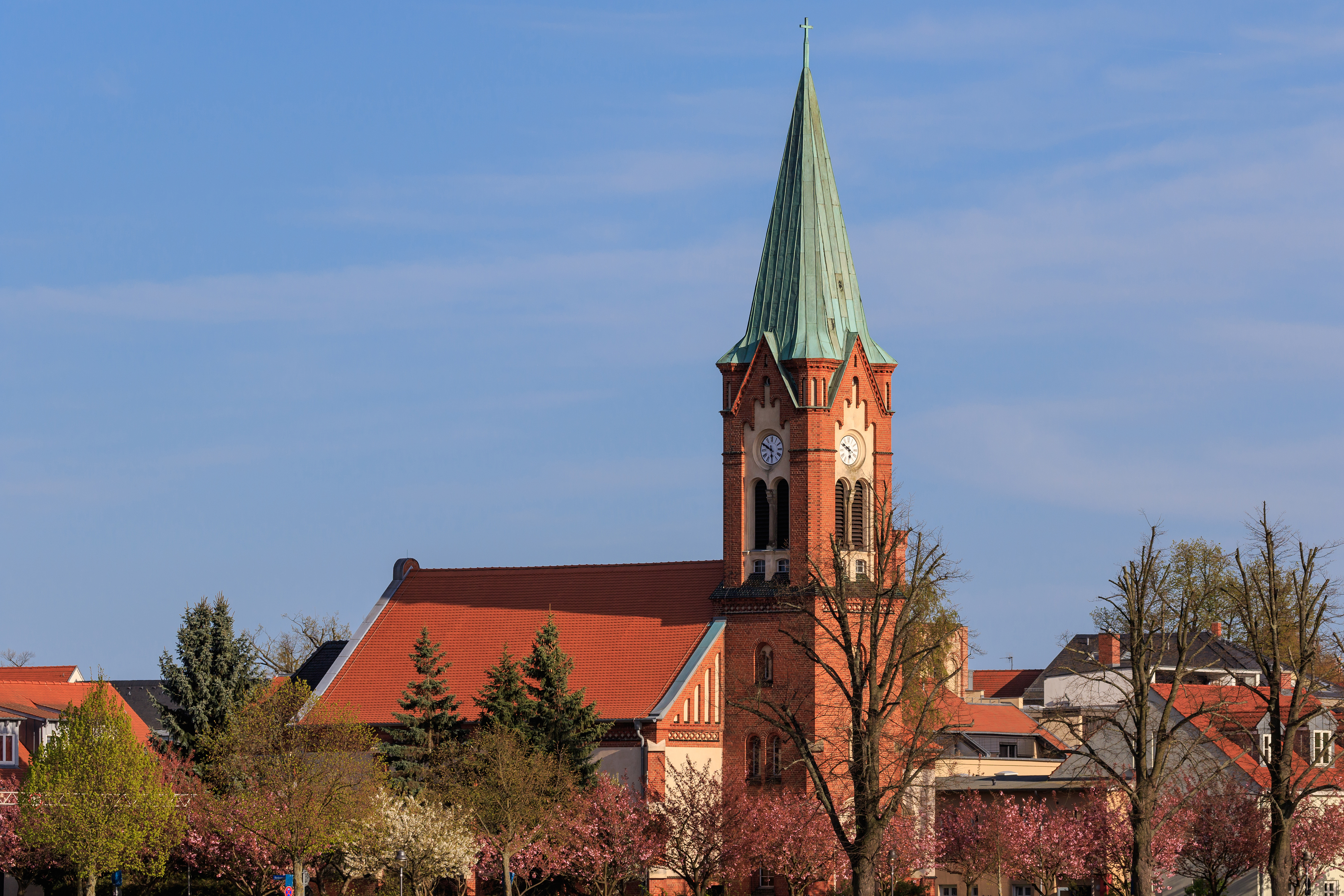 Saint Mary „Star of the Sea“ Church in Werder (Havel), Brandenburg, Germany